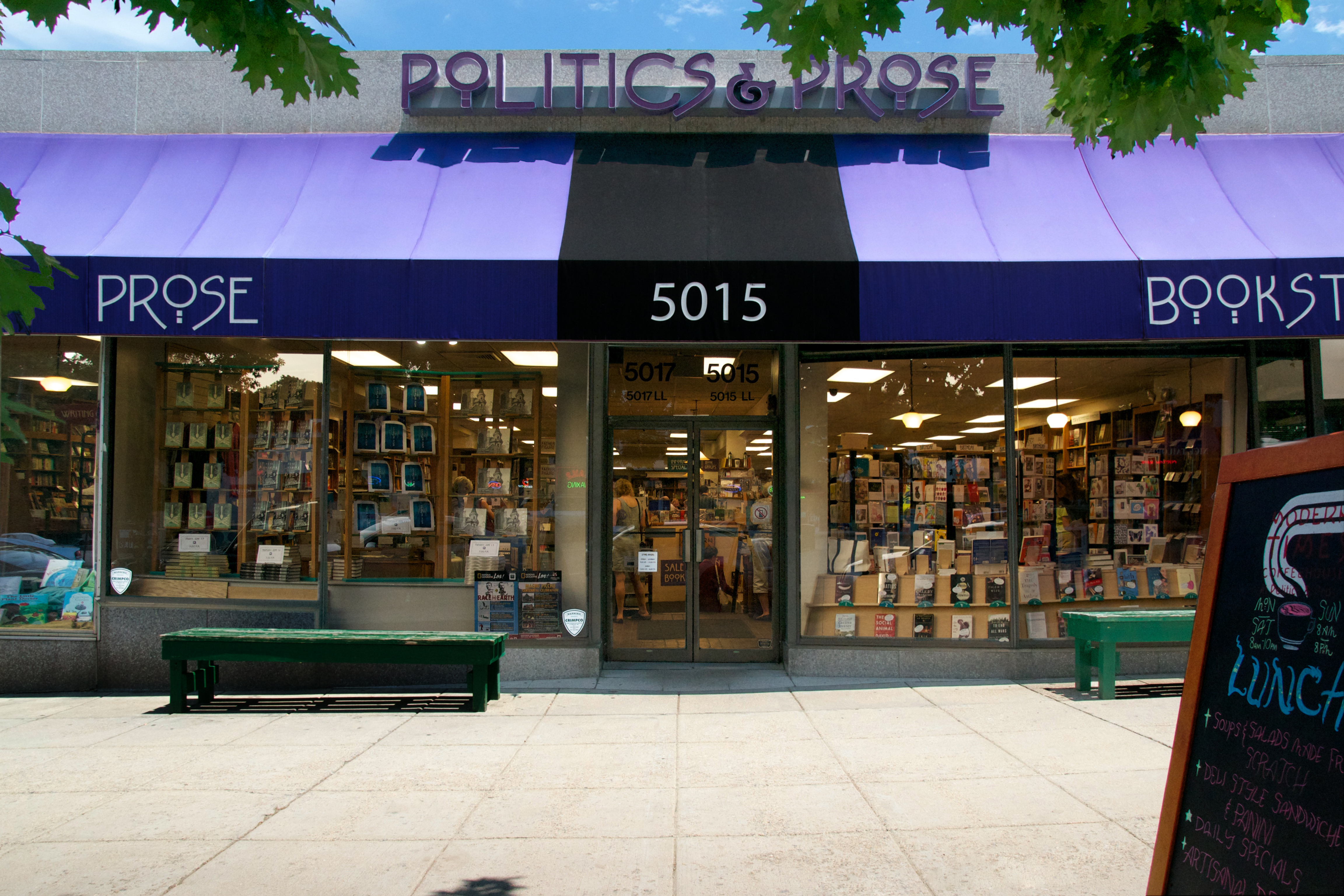 A front view of Politics and Prose in Washington, D.C.